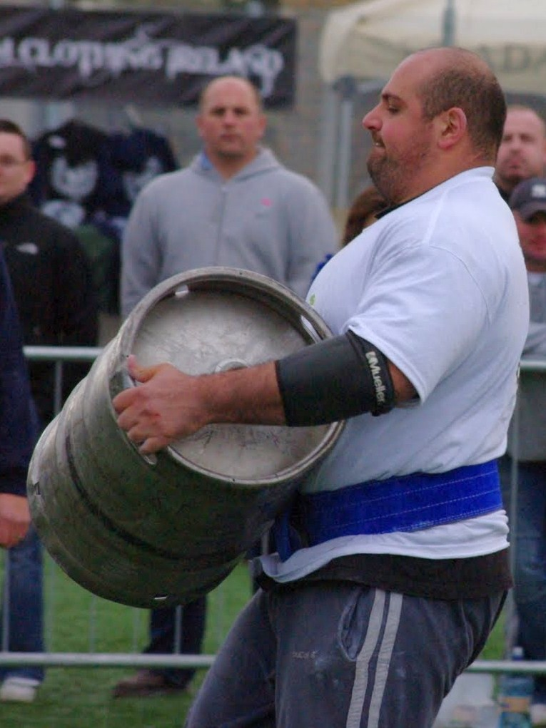 Laurence Shahlaei at the Keg Race.